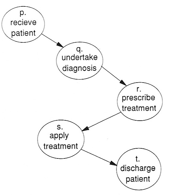 A figure used in the paper "SSM for Knowledge Elicitation and Representation"